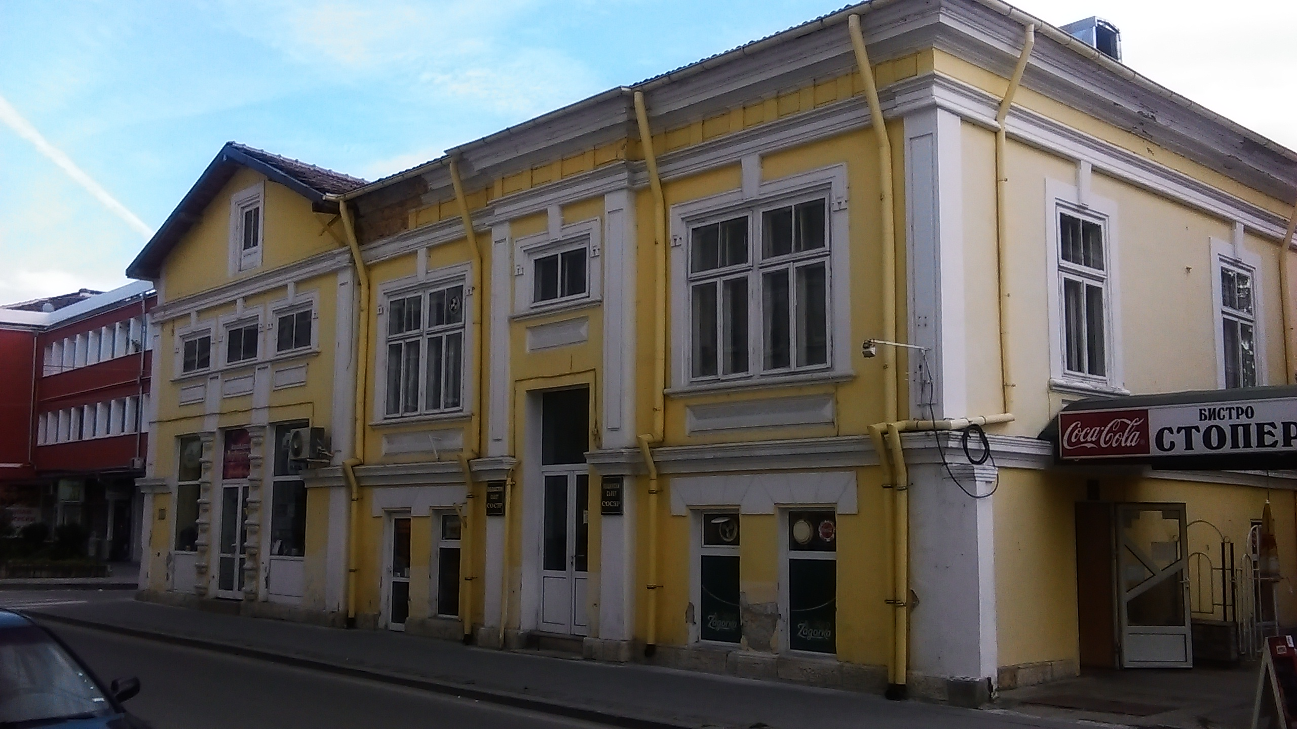 House of the Union of the officers and sergeants in Razgrad